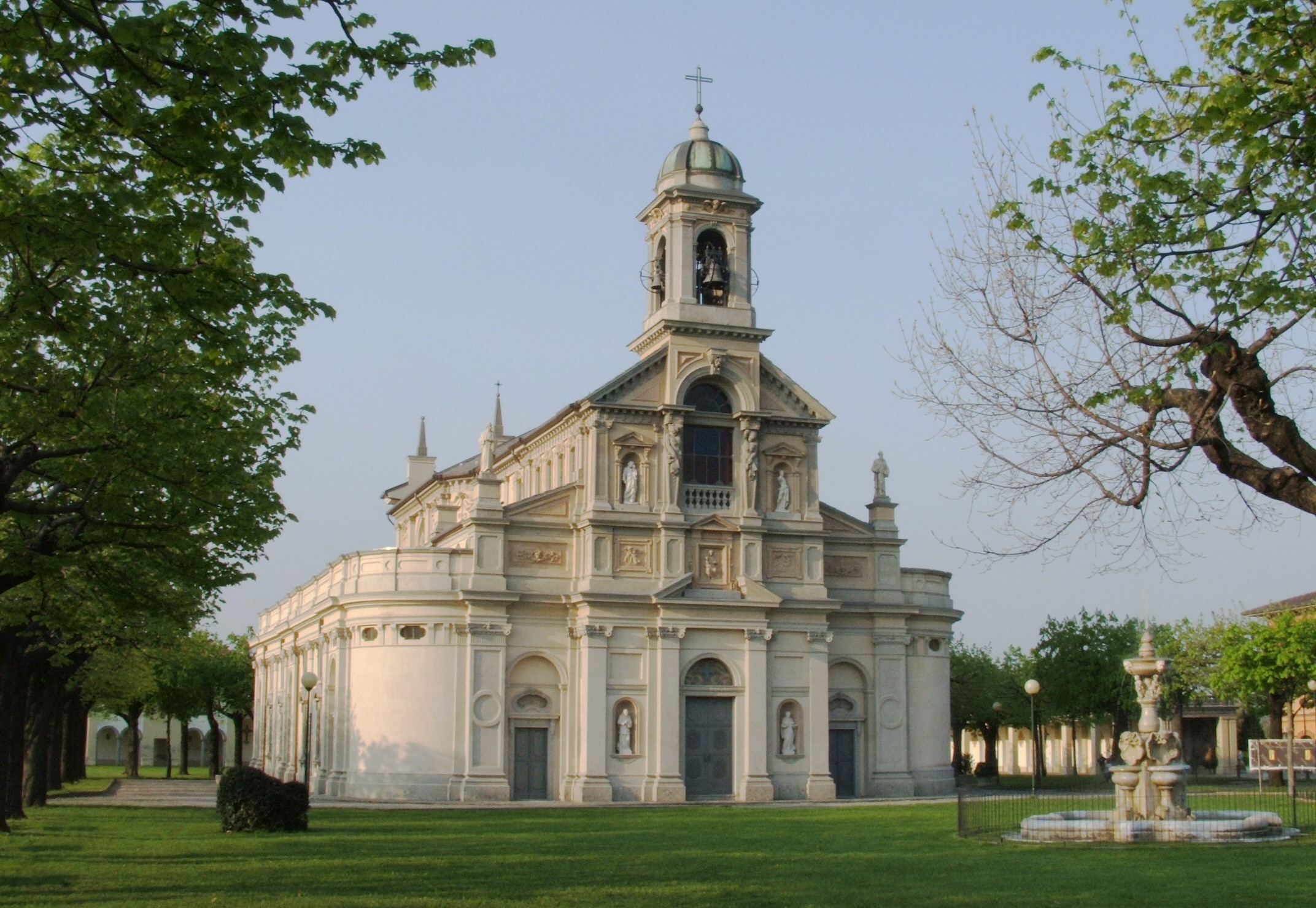 Stezzano, Bergamo, Italy - Sanctury of Madonna dei campi (Madonna of fields)